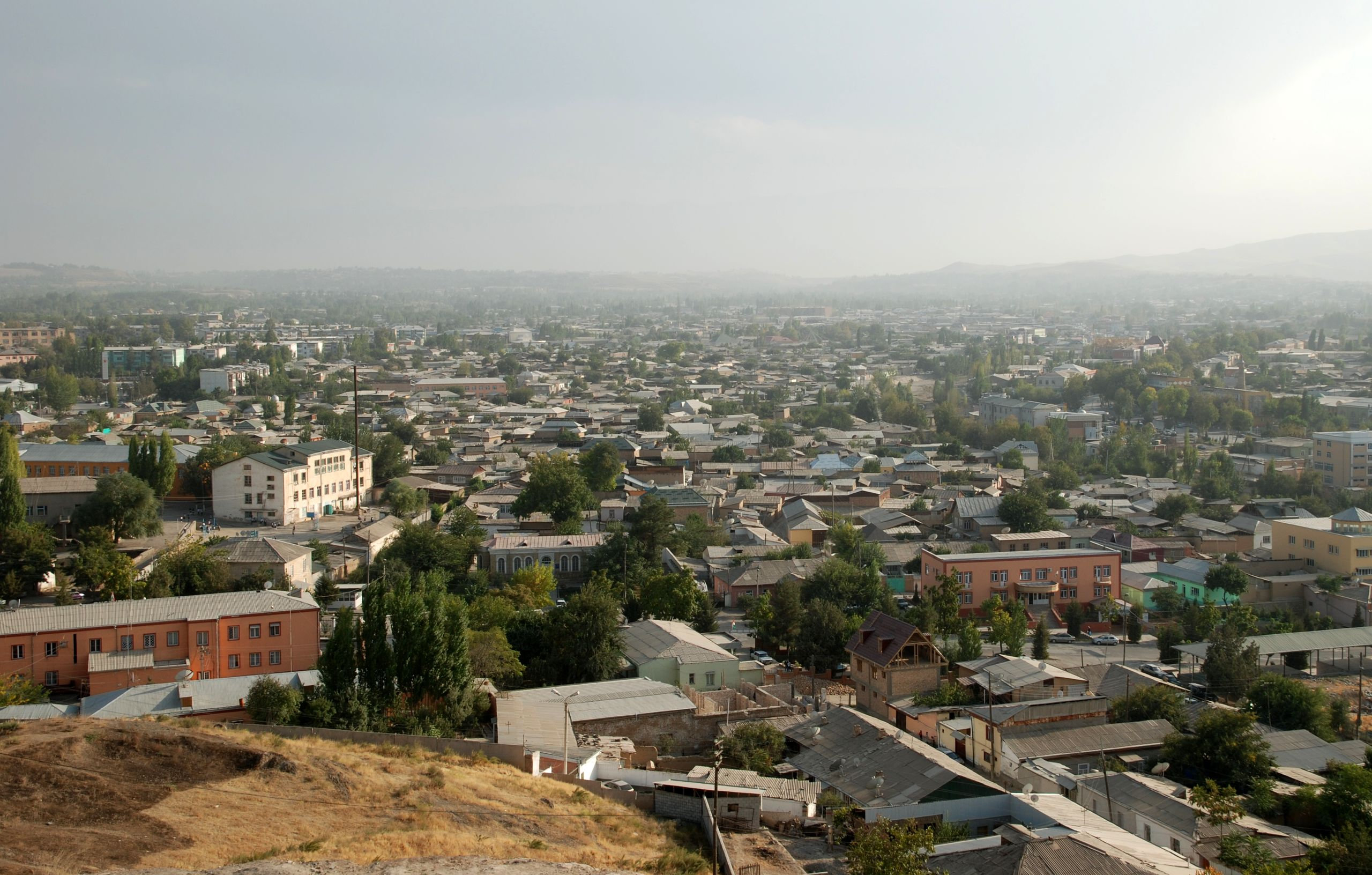 Istaravshan, from Mug Teppe towards southwest